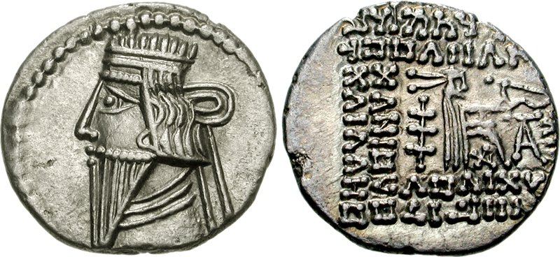 Coin of Mithridates IV, an Parthian king.